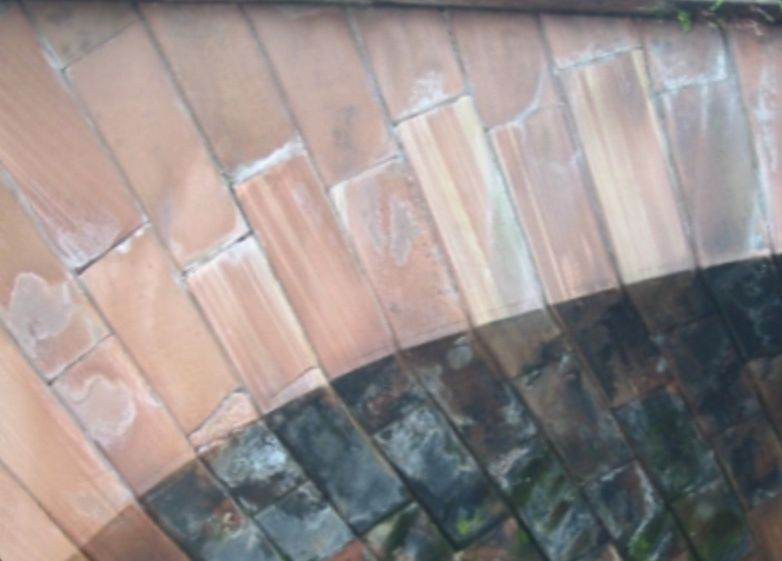 Detail of the Rainhill skew bridge.